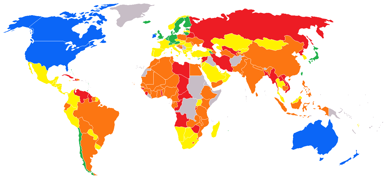 The 2008 Heritage Foundation Index of Economic Freedom. Legend: Blue: Free Green: Mostly free Yellow: Moderately free Orange: Mostly not free Red: Not free Grey: Ungraded